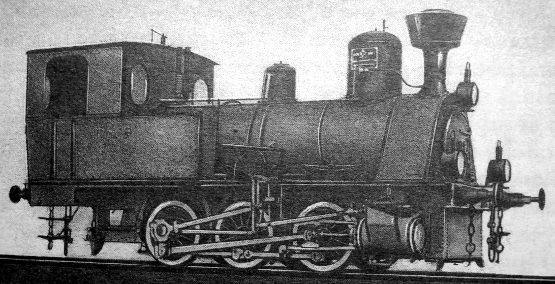 Russian tank loc type 2345